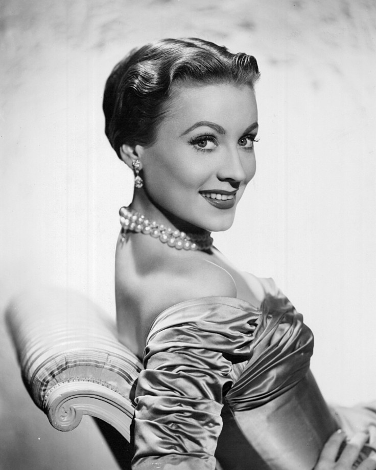 Photo of Anne Jeffreys.